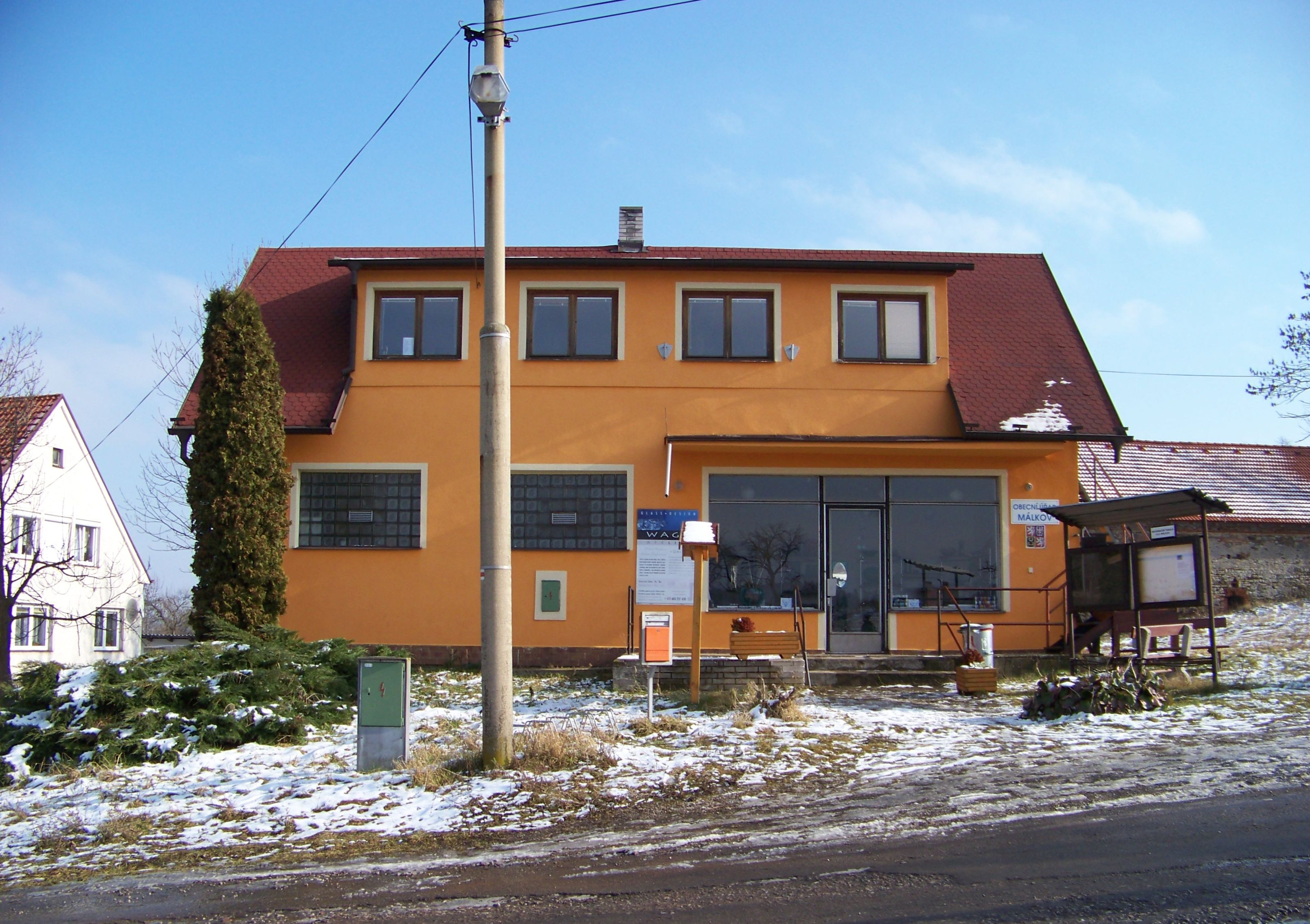 Málkov, Beroun District, Central Bohemian Region, Czech Republic. A municipal office.